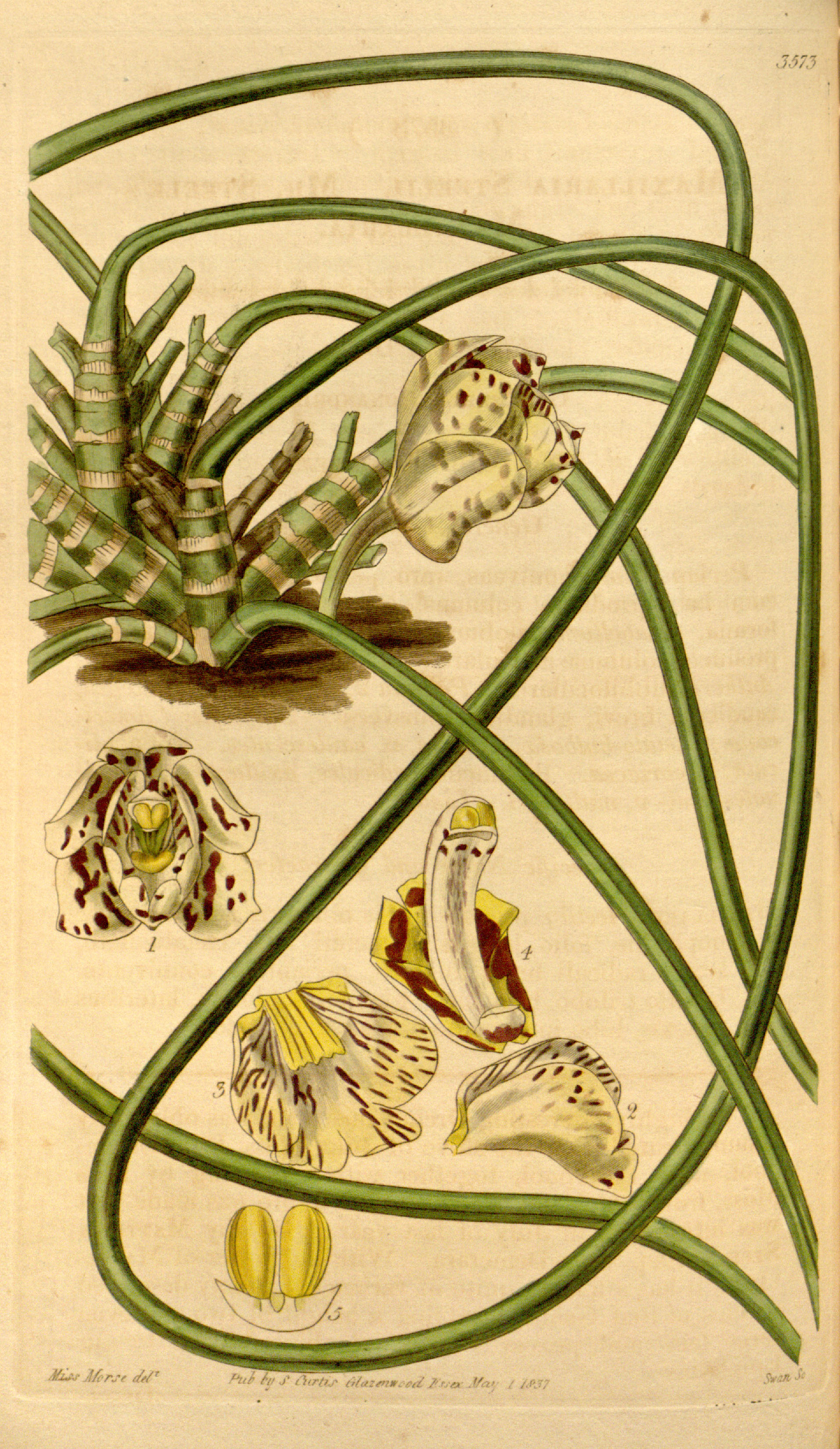 Illustration of Scuticaria steelei (as syn. Maxillaria steelii) Note: Plant is drawn upside down, obviously the artist didn't realize it's a hanging plant. (See photos and illustration from Edwards's Botanical Register)